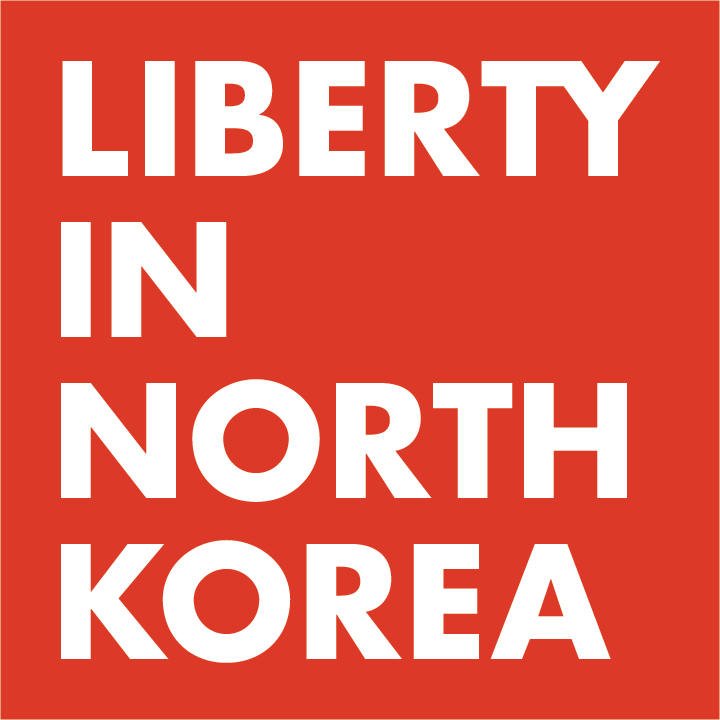 The official logo of Liberty in North Korea (LiNK).